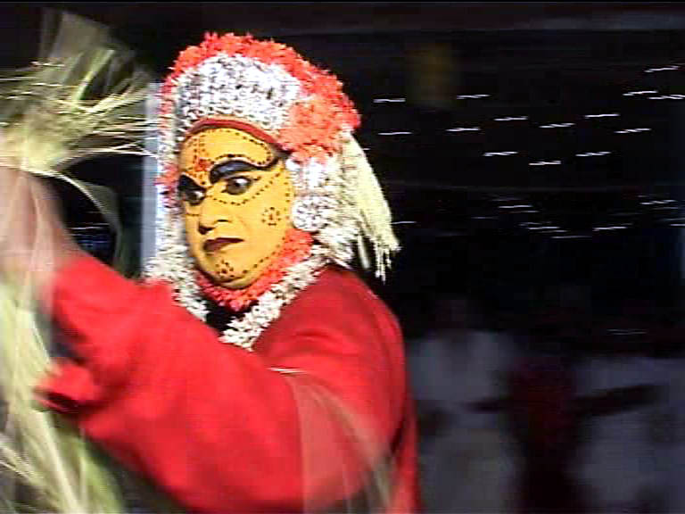 This is an image of bhuta kola dancer